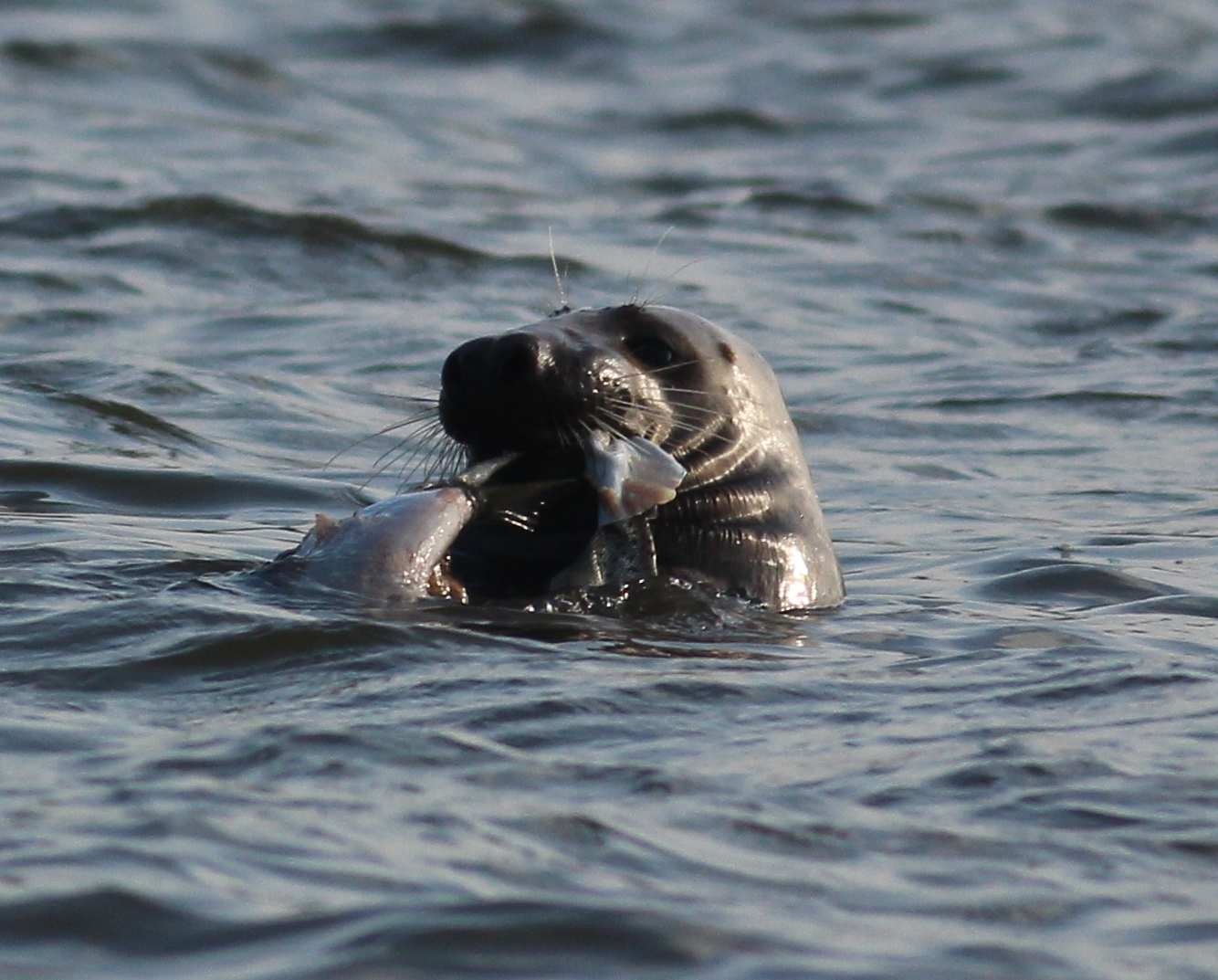 The male of grey seal (Halichoerus grypus) is eating a hunted fish in Przekop (Vistula River, Gdańsk, Poland).